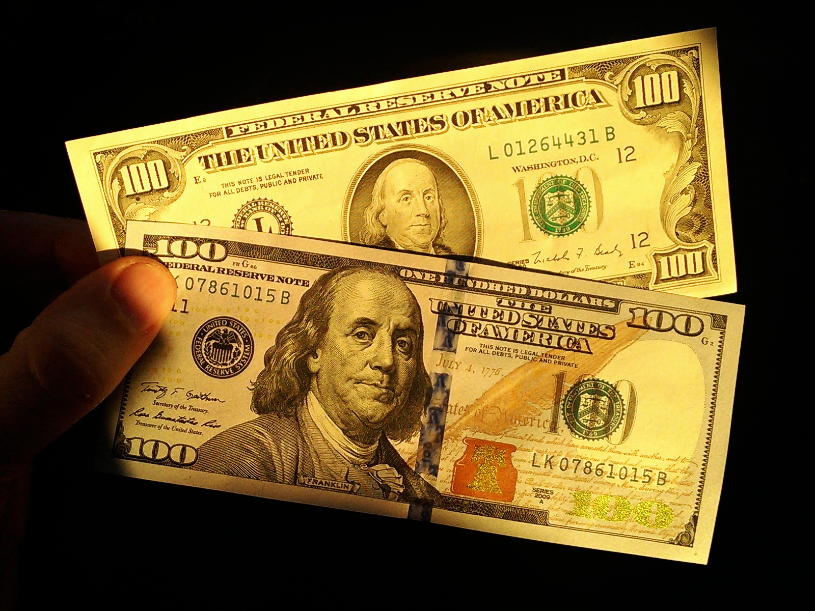 Front sides of US $100 bills comparing the old style ("Series 1990" shown) and the 2013 style ("Series 2009 A"). Not shown is the US $100 bill style which spanned the years 1996-2013 for its release.